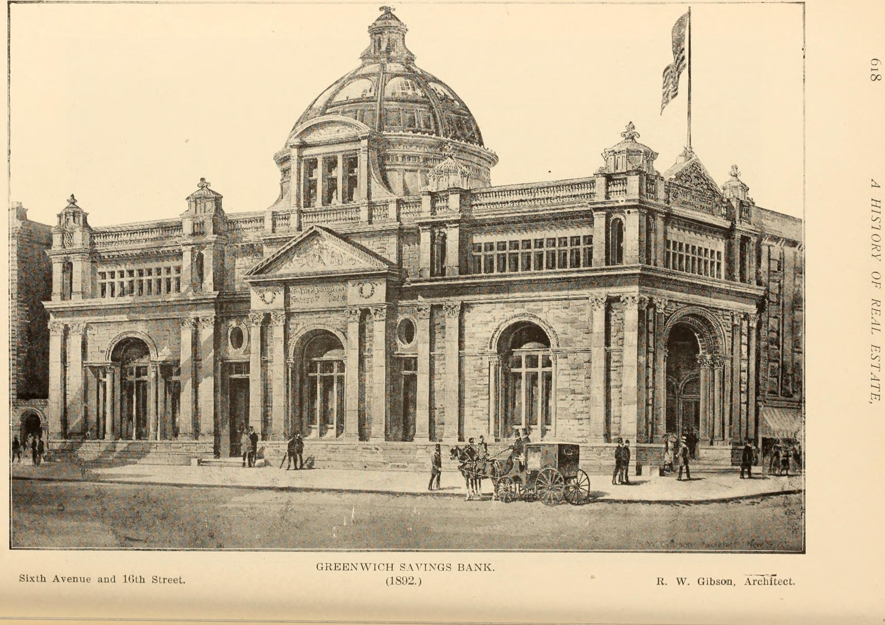 Title: A history of real estate, building and architecture in New York City during the last quarter of a century Year: 1898 (1890s) Authors: Durst, Seymour B., 1913-, former owner. NNC Real Estate Record Association Union League Club (New York, N.Y.), former owner. NNC Subjects: Real estate business Building Architecture Publisher: New York : Record and guide Text Appearing Before Image: 3UILDIXG AXD ARCHITECTURE /.V .V£ff YORK. Text Appearing After Image: '